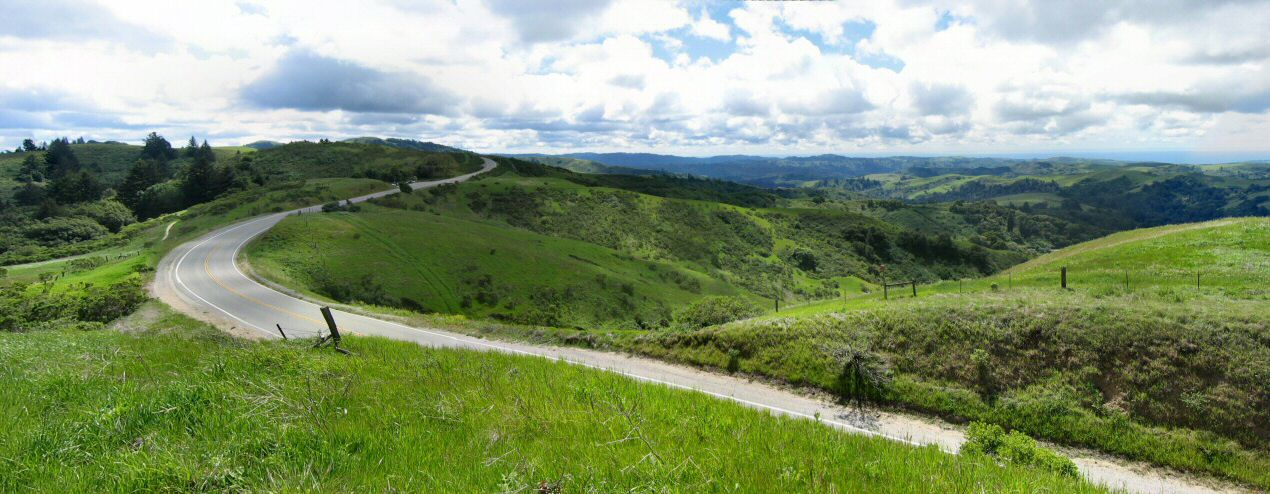 A section of Skyline Boulevard (Hwy 35) in the Santa Cruz Mountains, San Francisco Bay Area of Northern California. This segmented panoramic photograph consists of 22 individual images.